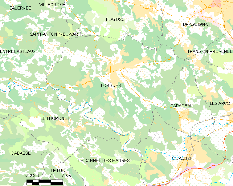 Map of French municipality Lorgues